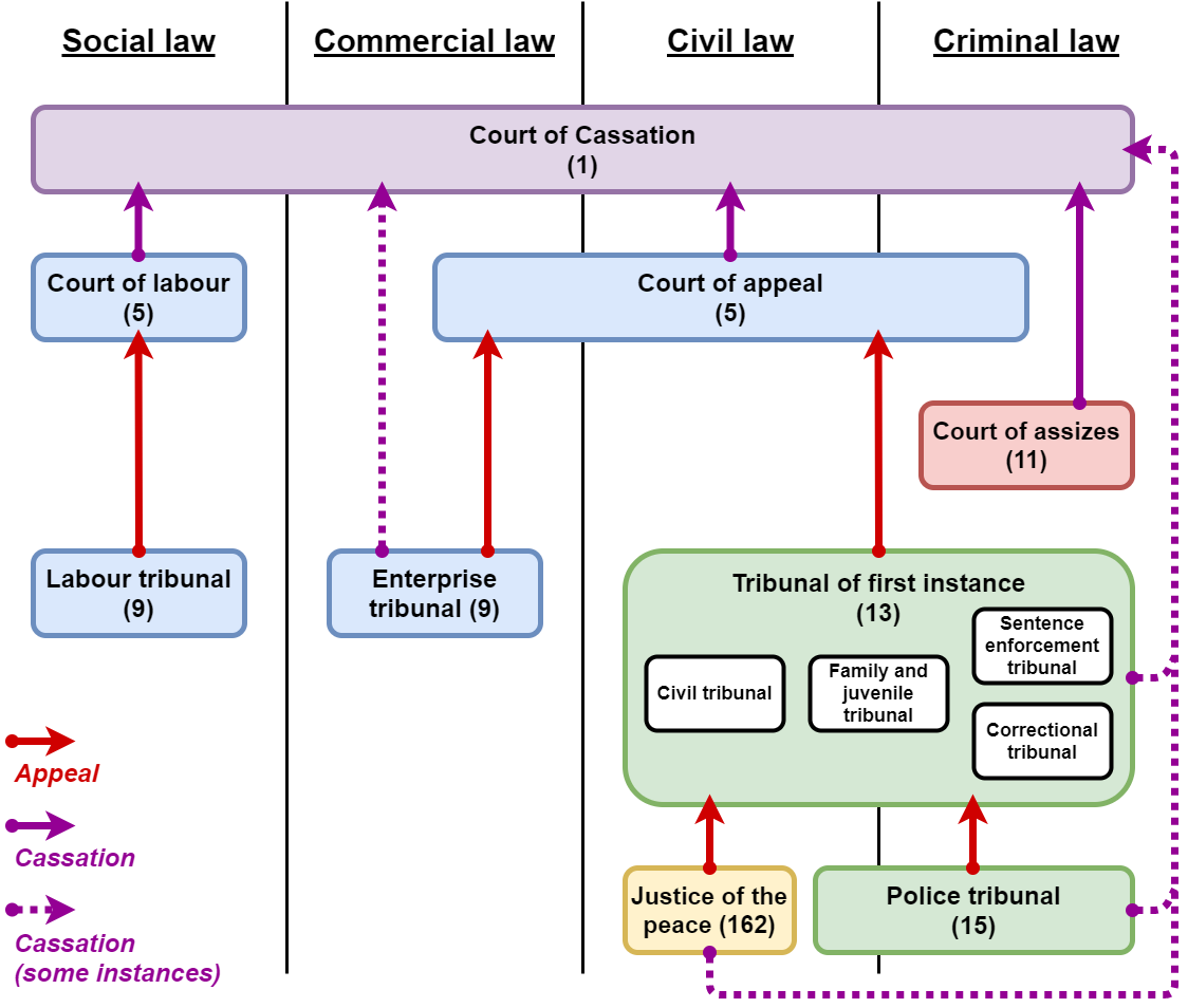 Schematic overview of all Belgian judicial authorities, their hierarchy, the areas of law in which they are competent and the possibilities for higher appeal. Yellow: organized per canton, green: organized per arrondissement ("district"), red: organized per province, blue: organized per judicial area ("ressort") and purple: one for the entire country. Situation as of 2020.